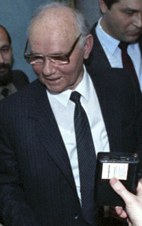 “4th USSR People's Deputies Congress”. KGB Chairman Vladimir Kryuchkov interviewed by journalists at the Kremlin Palace.